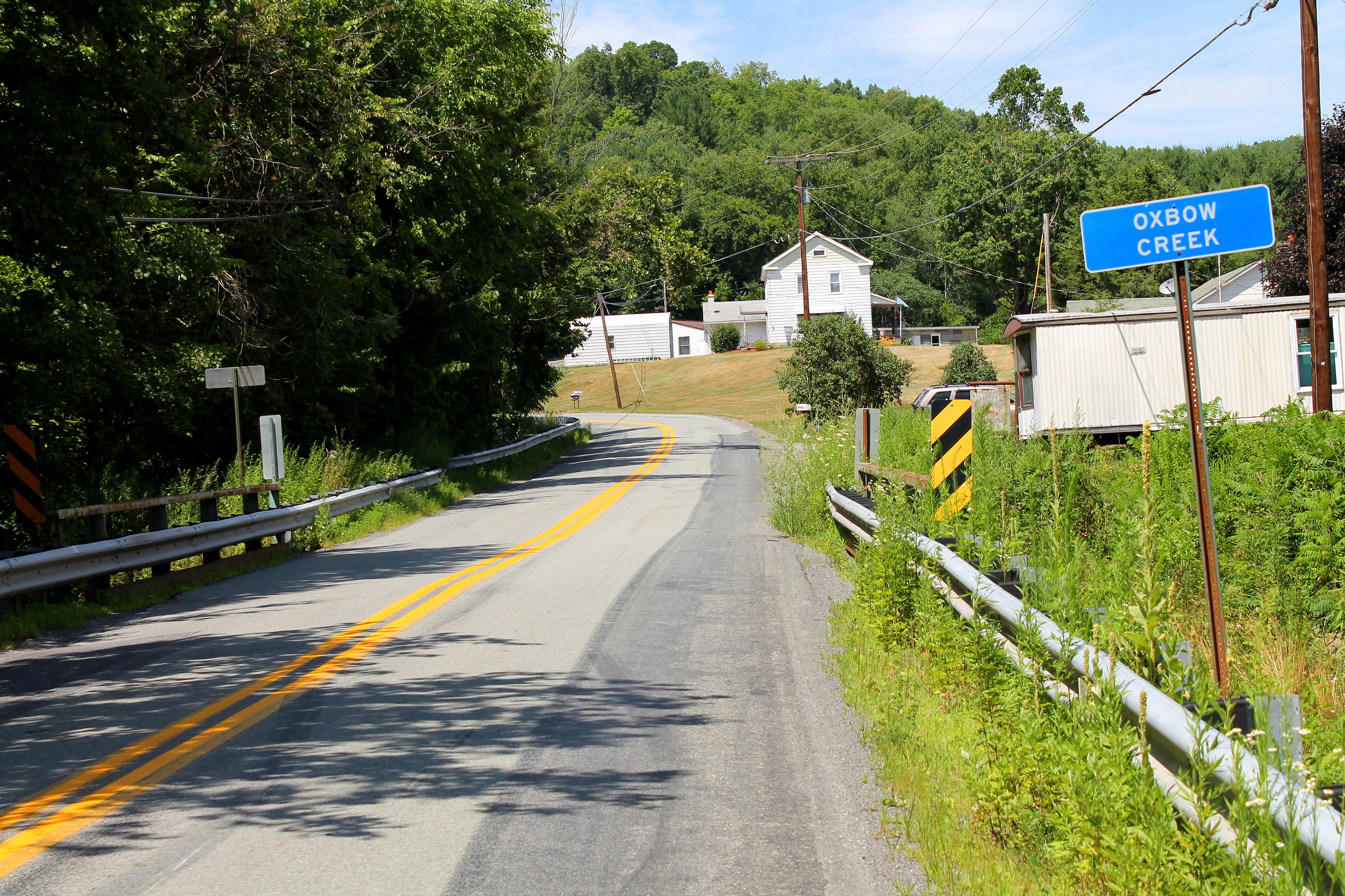 A bridge crossing Oxbow Creek, a tributary of Tunkhannock Creek in Wyoming County, Pennsylvania.